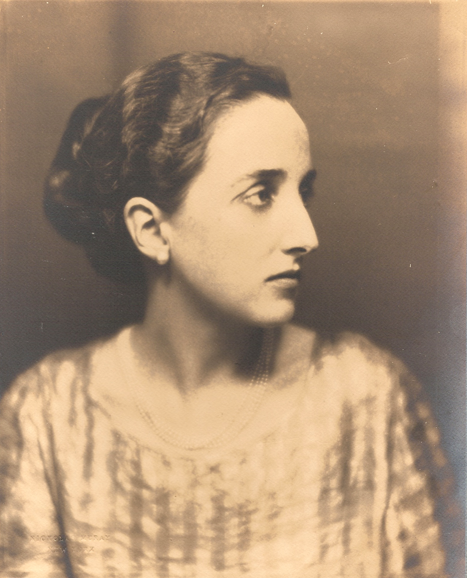 A portrait of Katharine Sergeant Angell White.